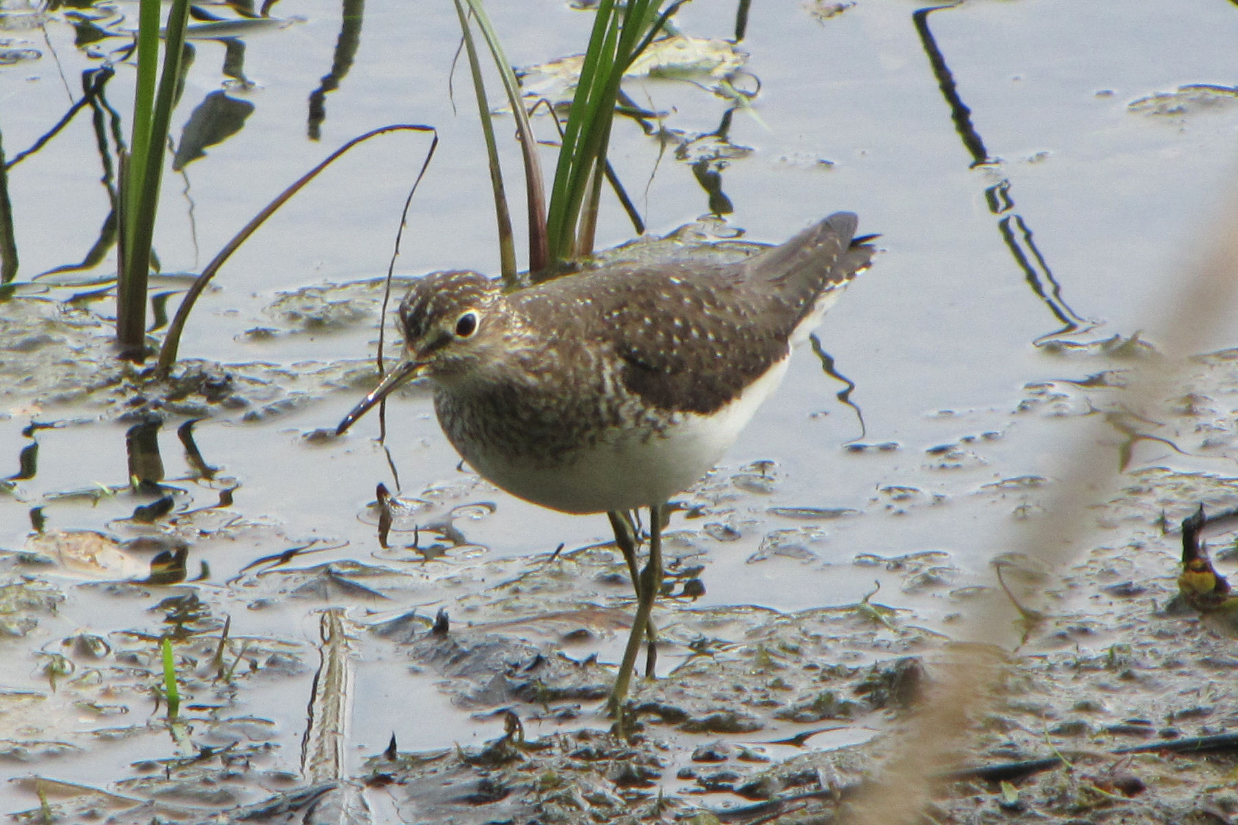 Solitary Sandpiper (Tringa solitaria), Petrie Island, Ottawa, Ontario